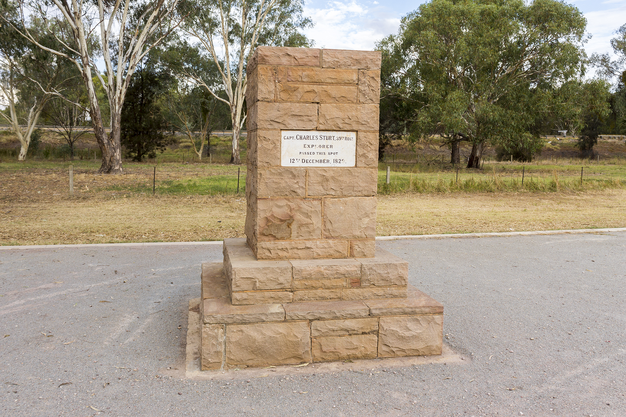 Sturt Memorial on Sturt Place in Narrandera.